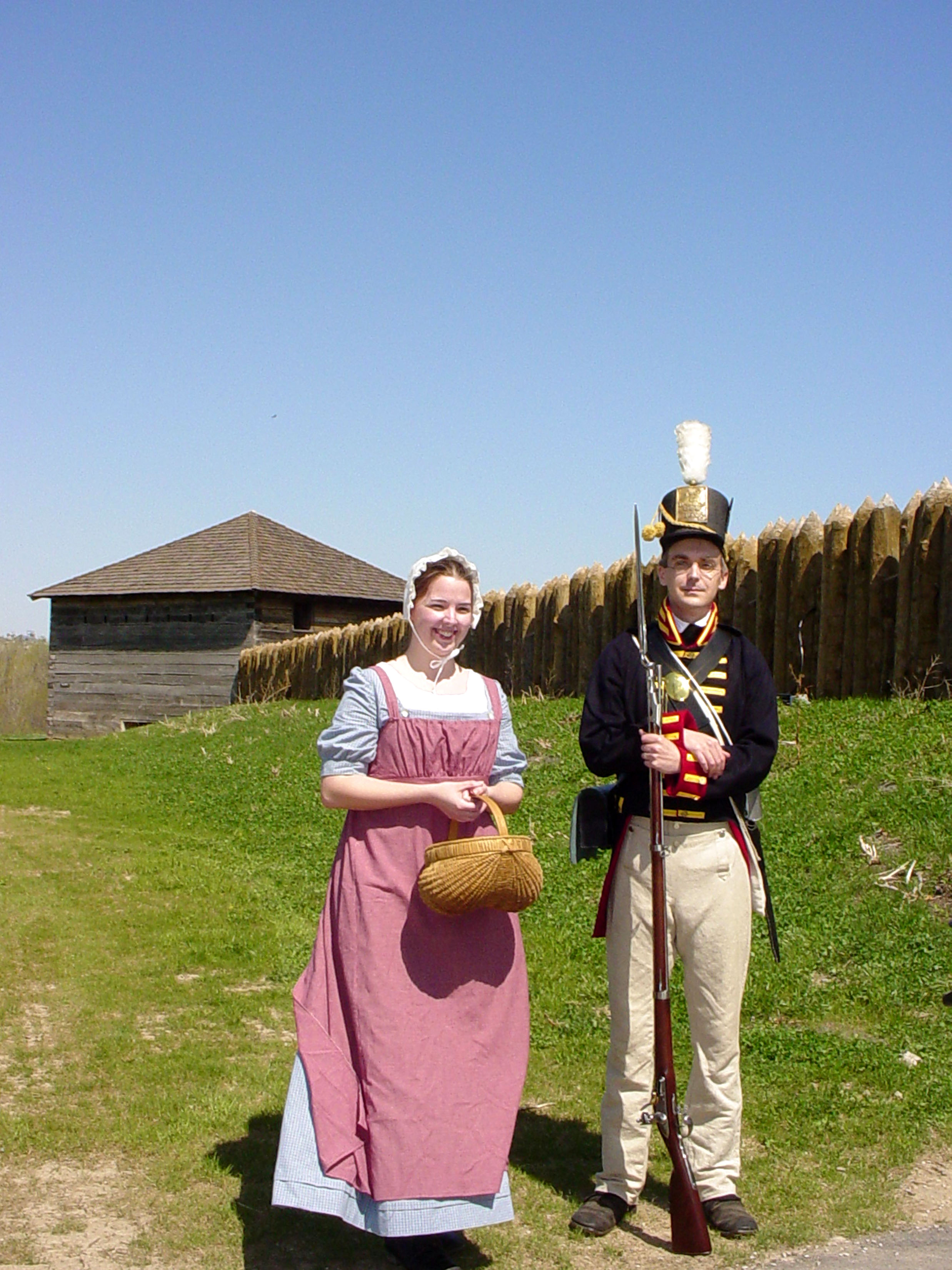 Dressed in clothing of the period, these guides at the Fort Meigs State Memorial prepare to give a tour of the facility on a clear day in the summer. The lady provides an example of commonly seen clothing in Ohio in the early 19th century and the soldier is that of an Artillery unit (denoted by the red facings that maintained their place as an Artillery distinction until well after the Second World War).